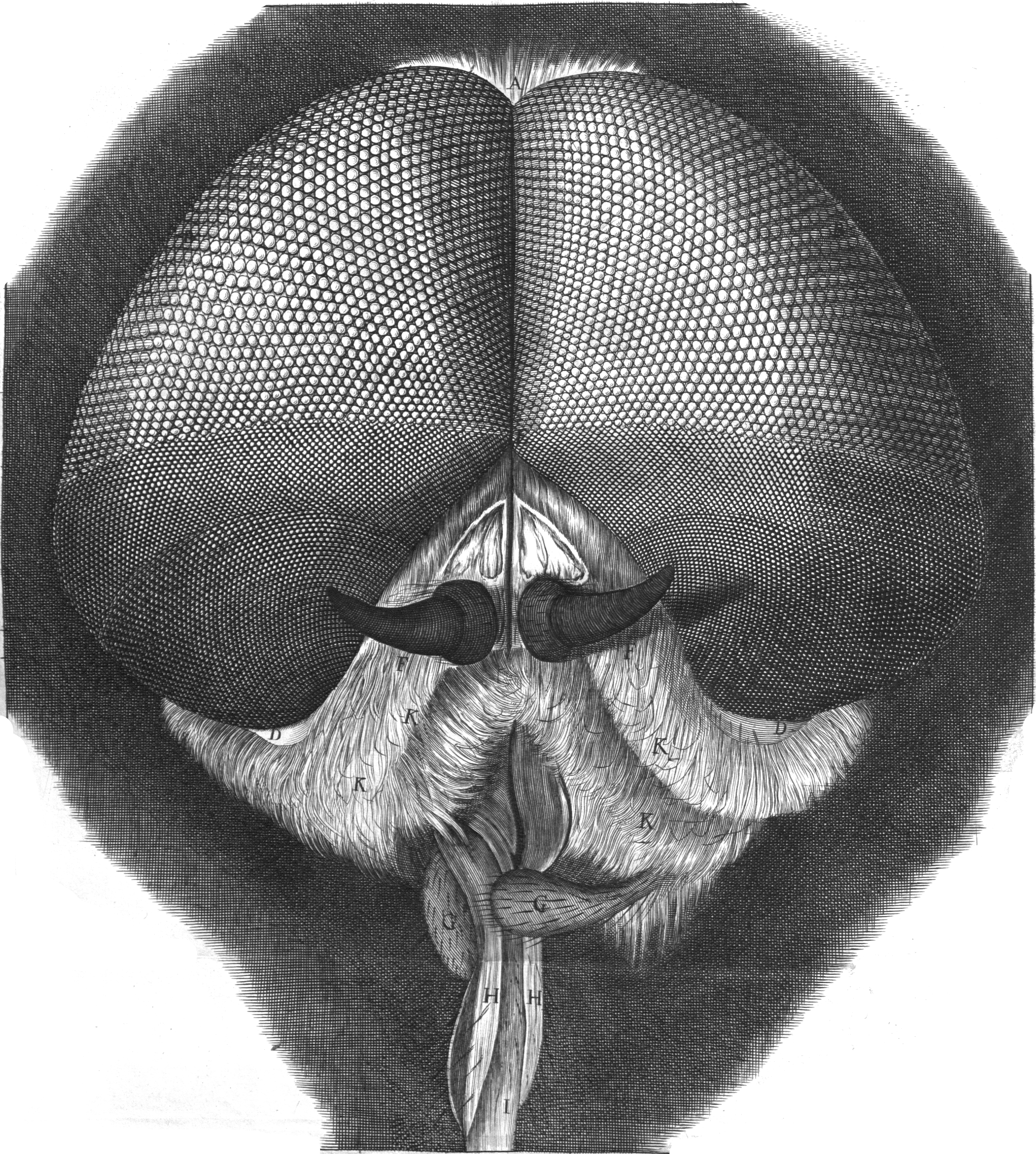 Plate 24 from Robert Hooke - head of drone fly (probably Tabanidae)